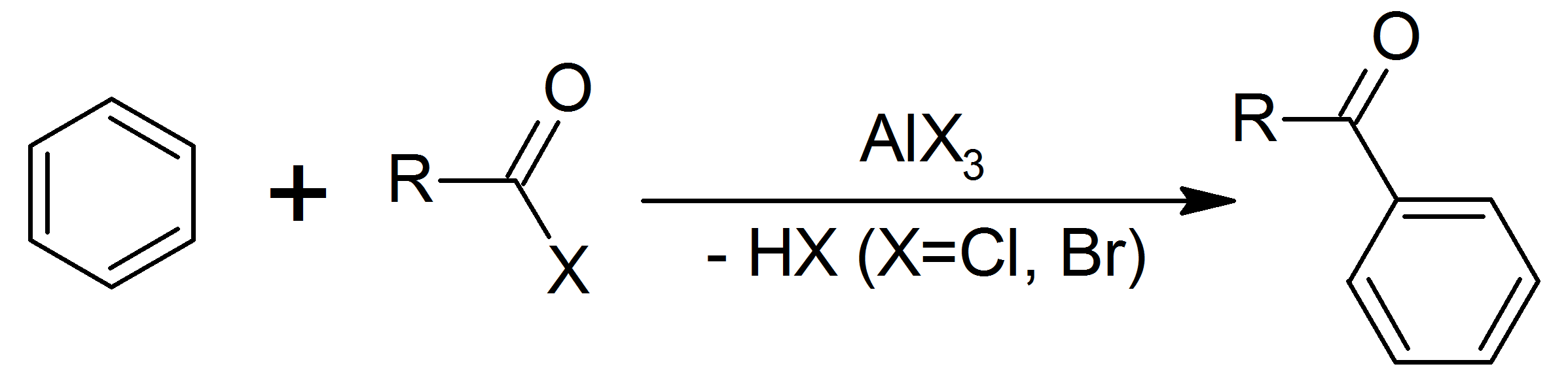 Benzene Friedel-Crafts Acylation